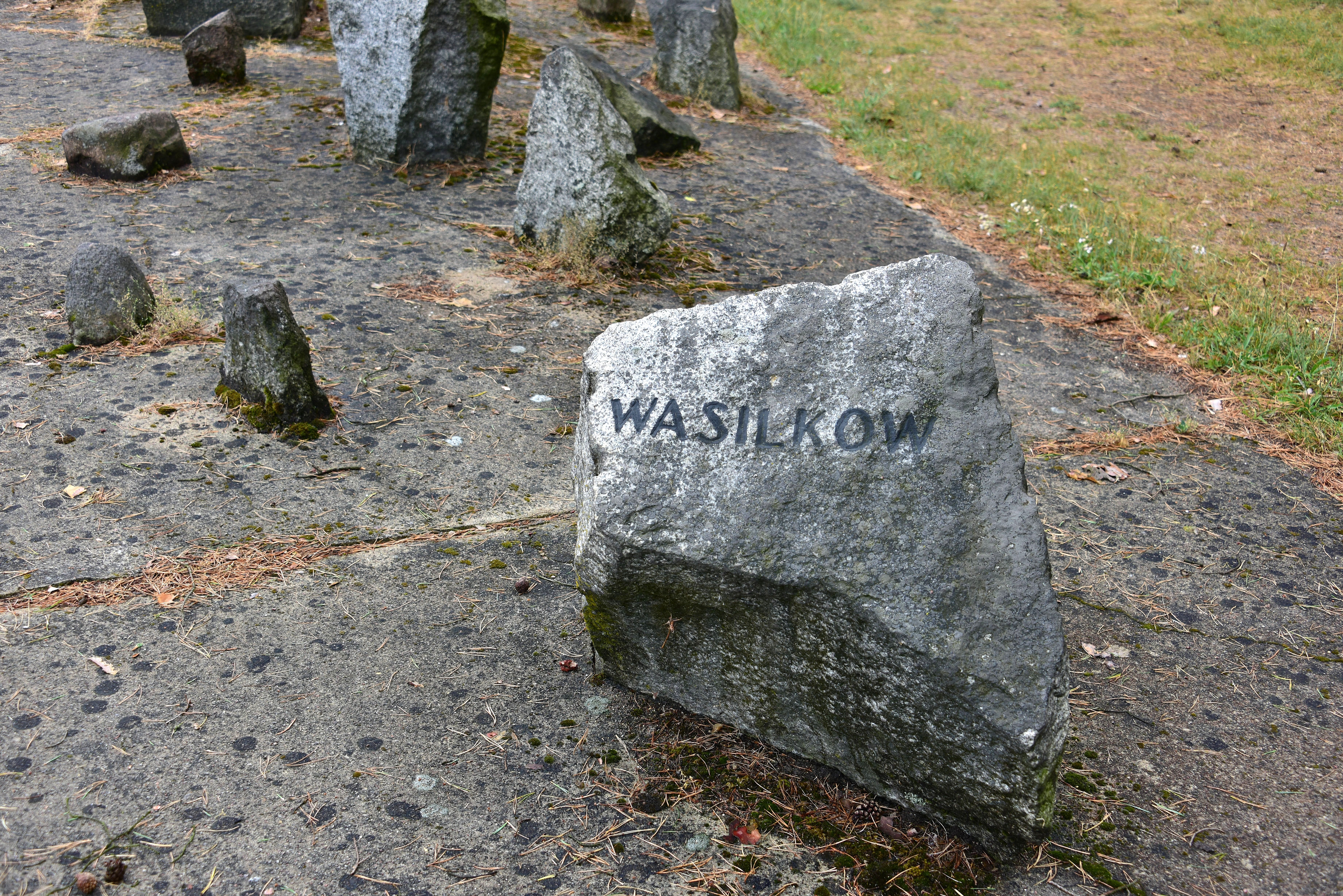 Treblinka death camp memorial. A stone commemorating the murdered Jews from Wasilków